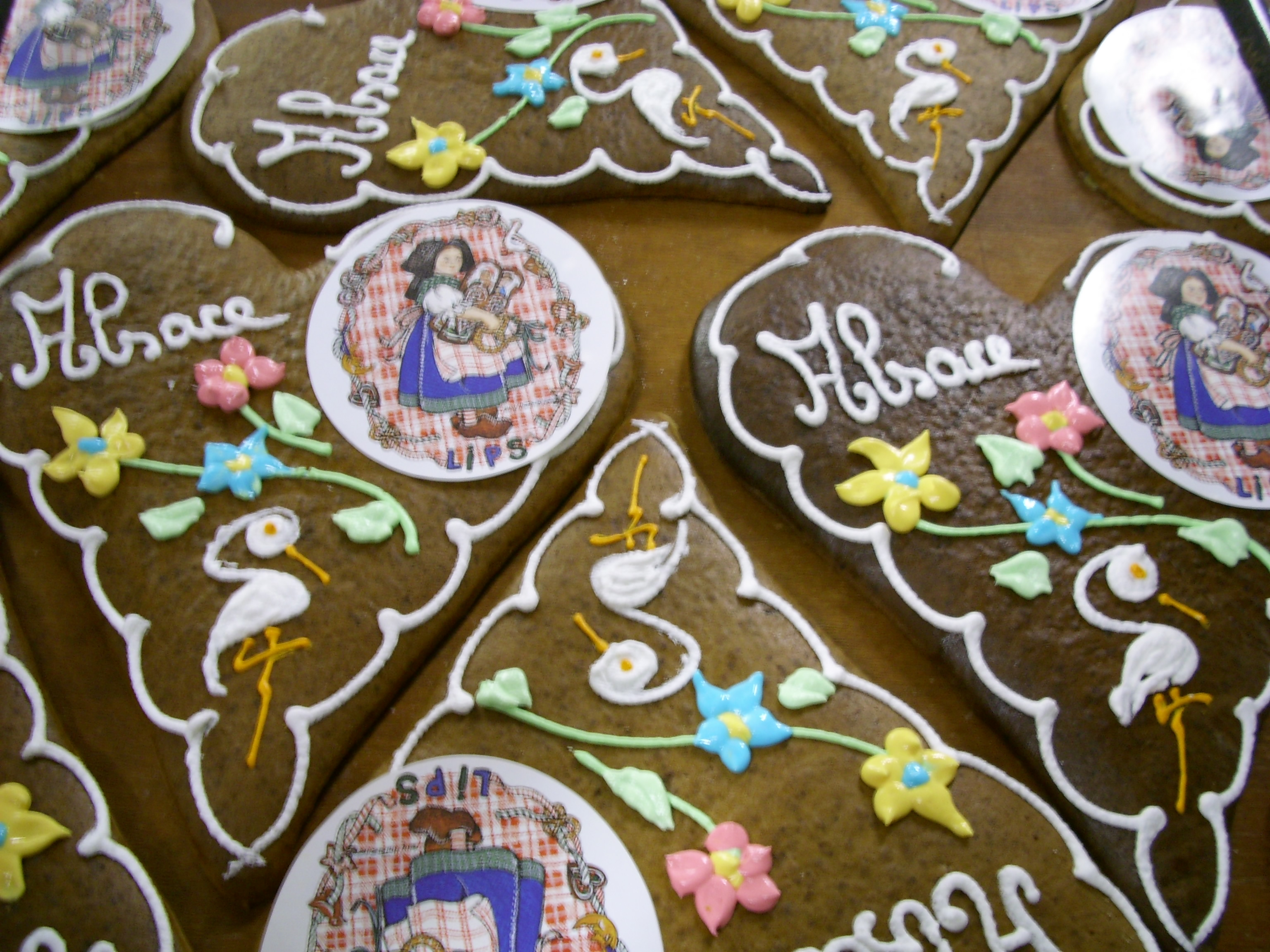 French gingerbread from backer Pains d'épices Lips, Gertwiller in Alsace